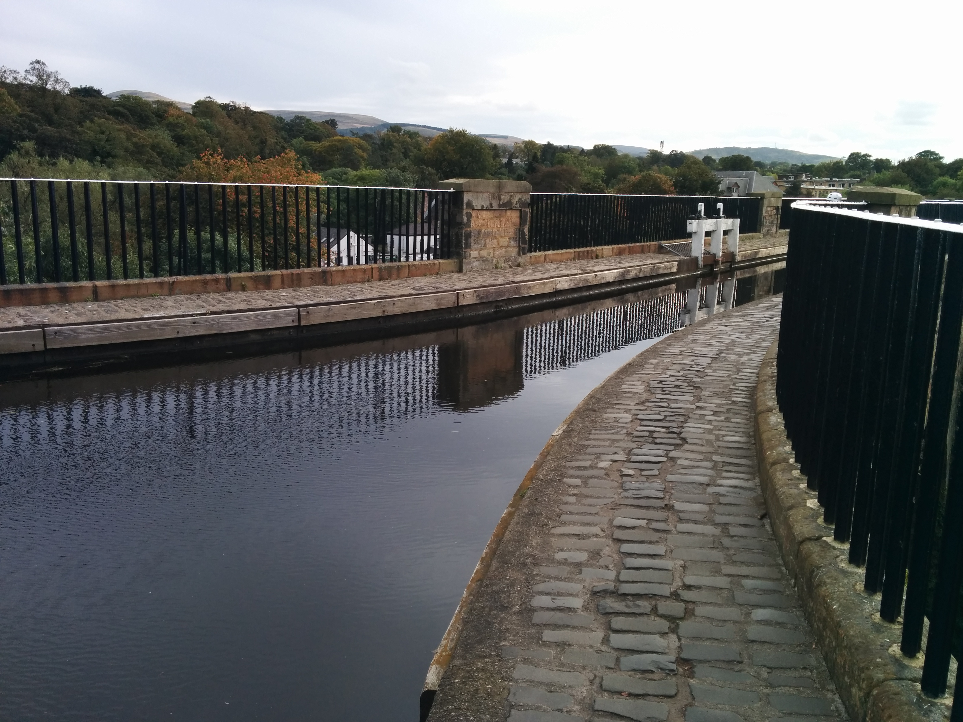 Slateford Viaduct